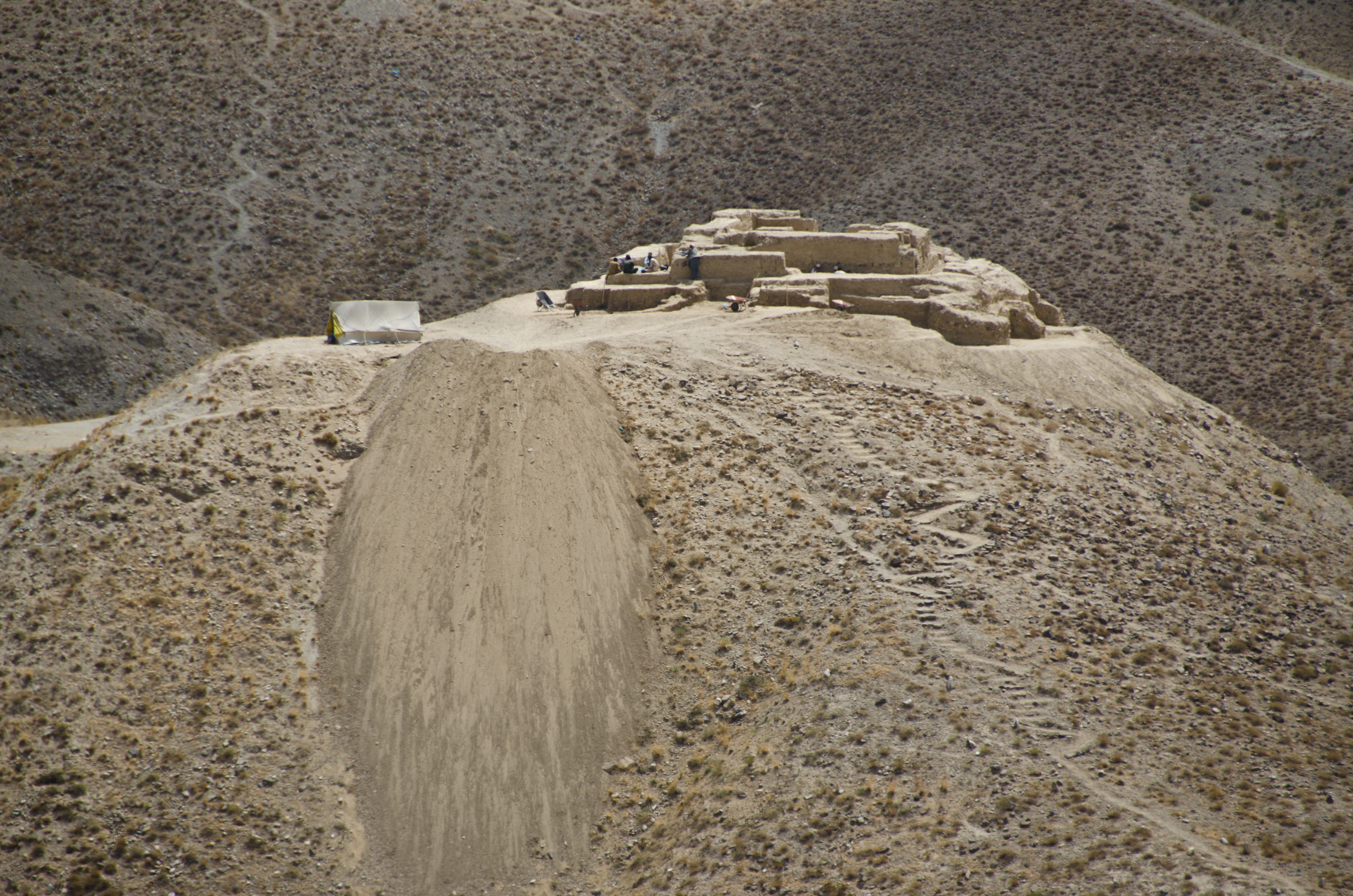 Mes Aynak site, Logar Province, Afghanistan.